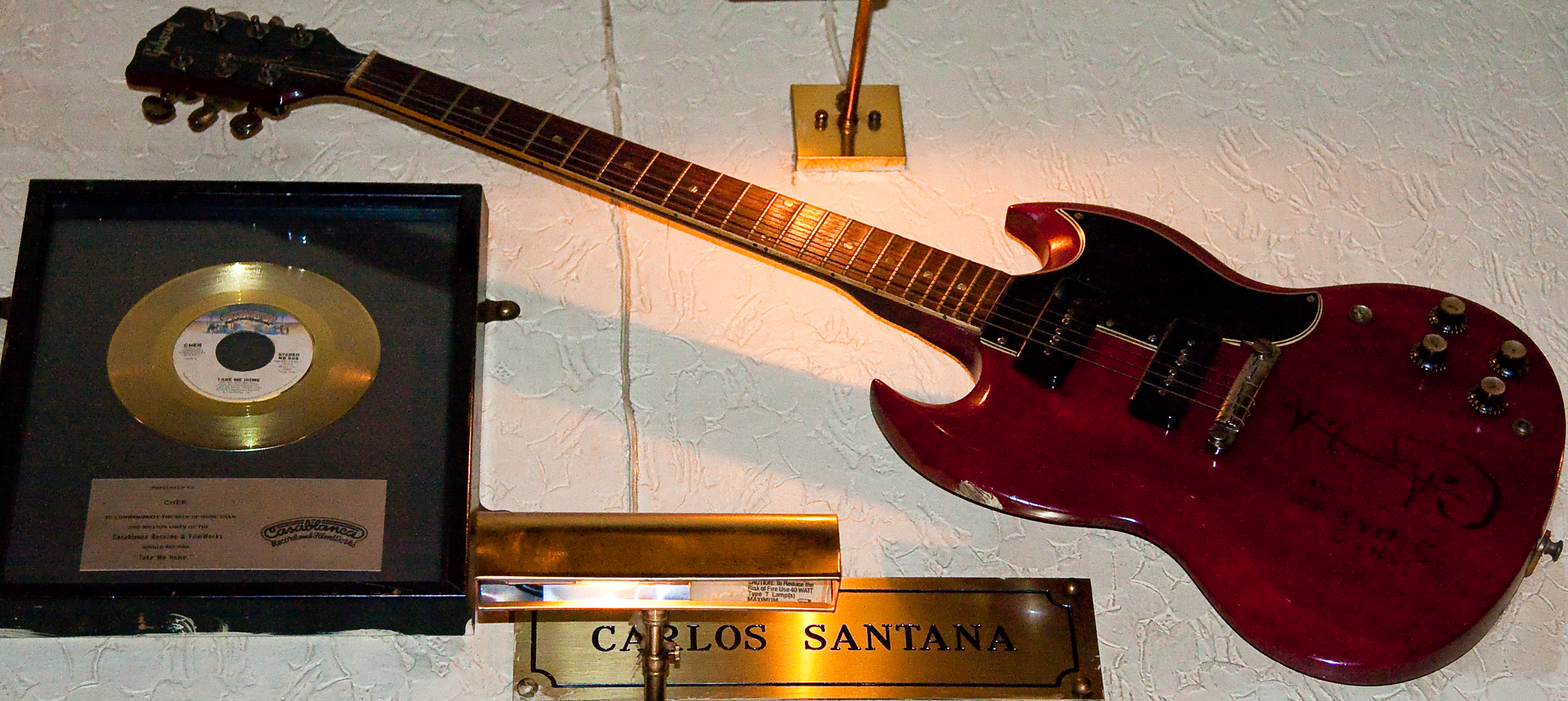 Carlos Santana's Gibson SG Special, Hard Rock Café Caïro